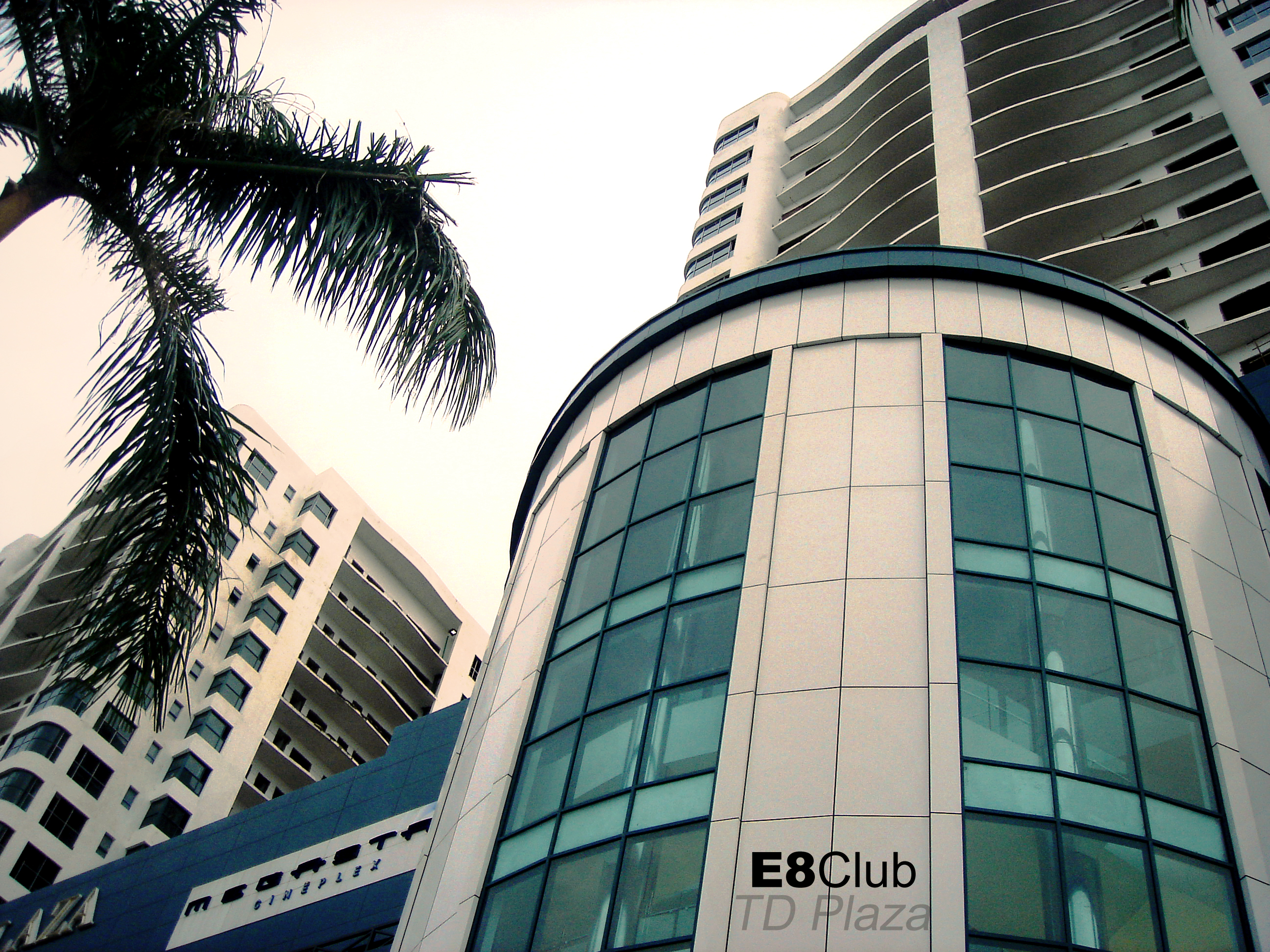 the TD plaze buildings is in Haiphong, Vietnam